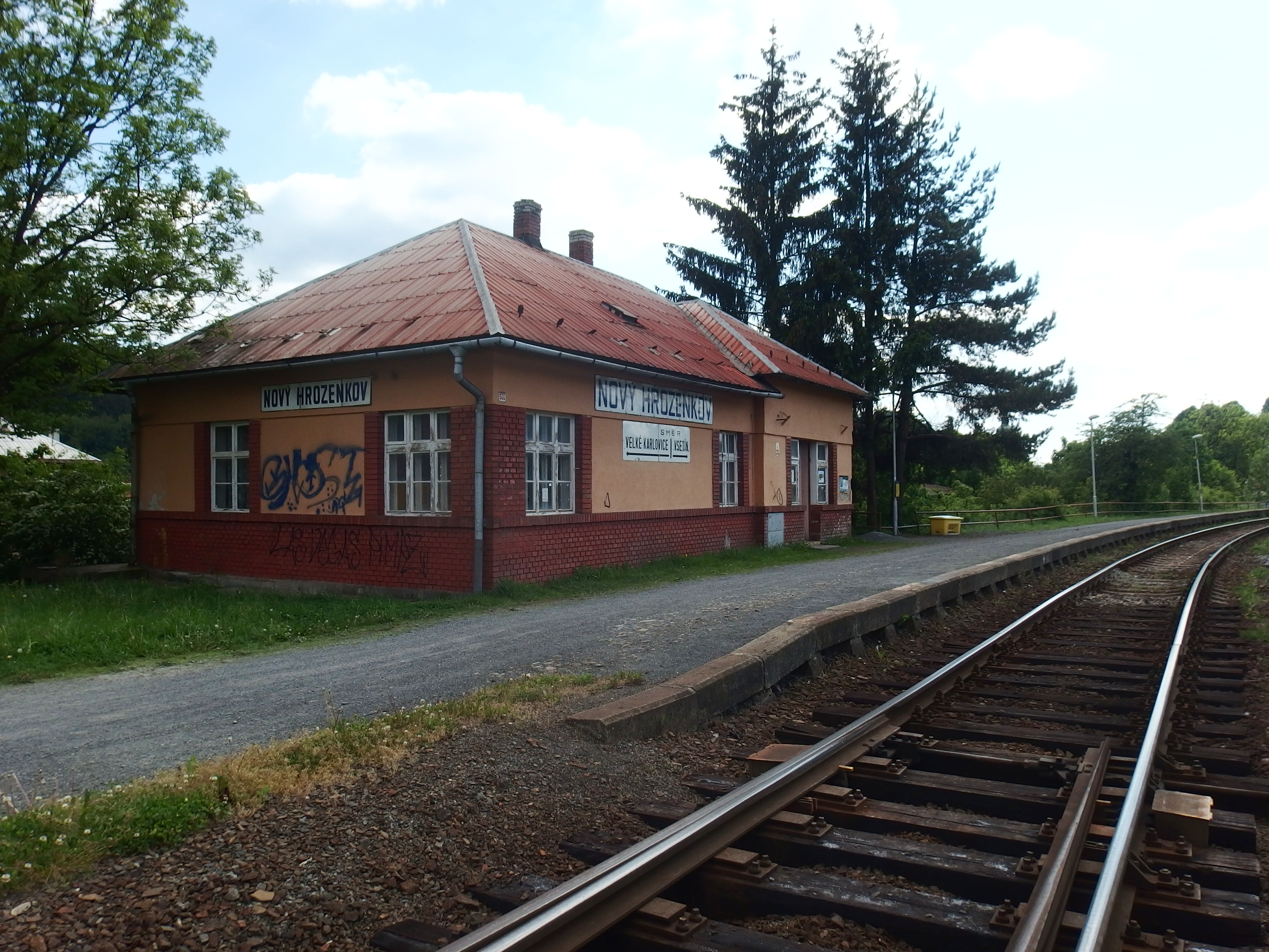 Nový Hrozenkov, Vsetín District, Czech Republic.